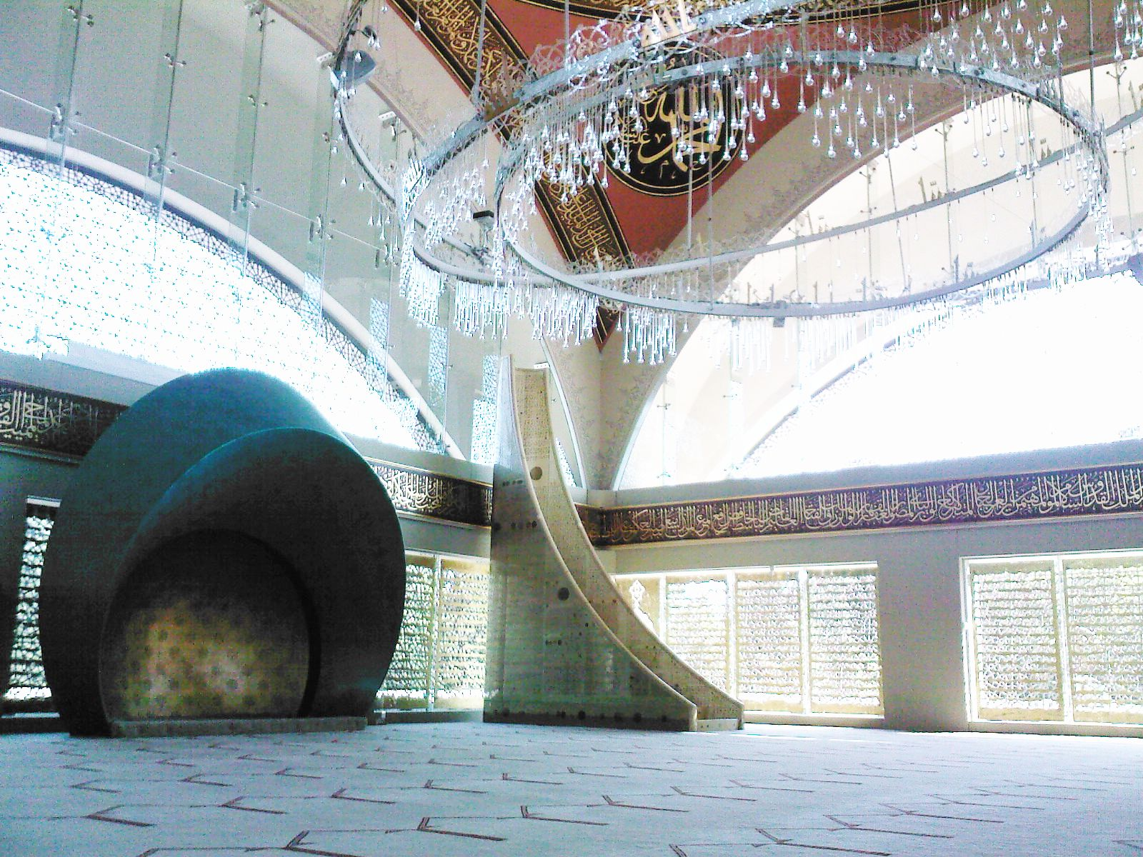 Interior of Şakirin mosque, with contemporary Mihrab, Minbar, daylighting use, and chandelier design. Located in Üsküdar, Istanbul.